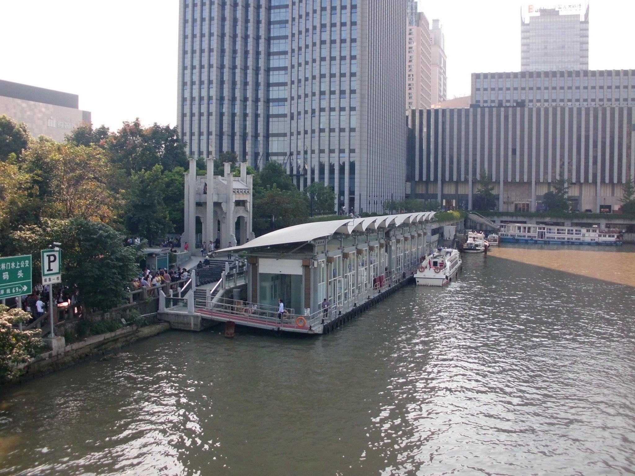 Westlake Cultural Square